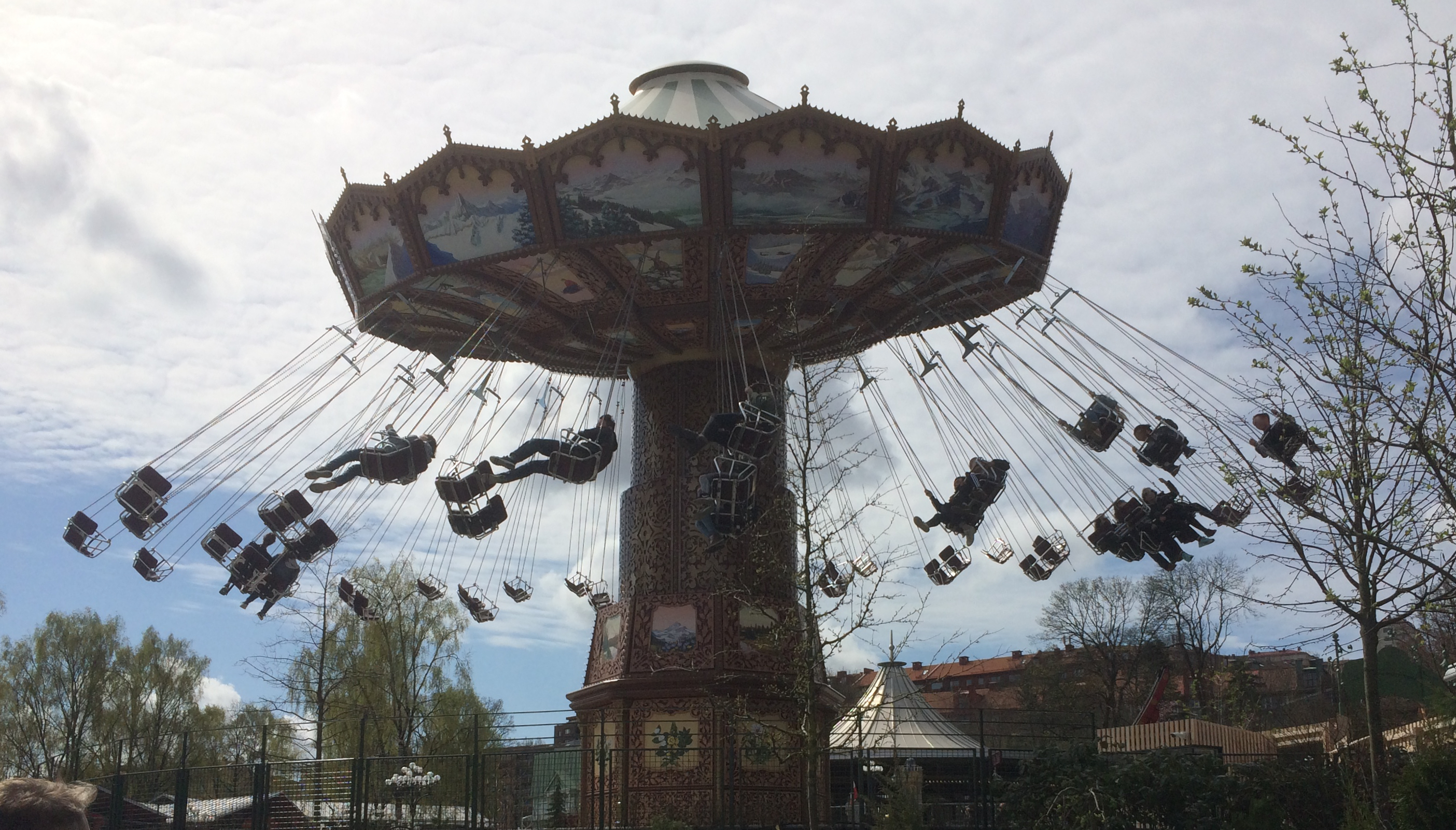 Slänggungan at Liseberg. A wave swinger / chain flyer from Zierer